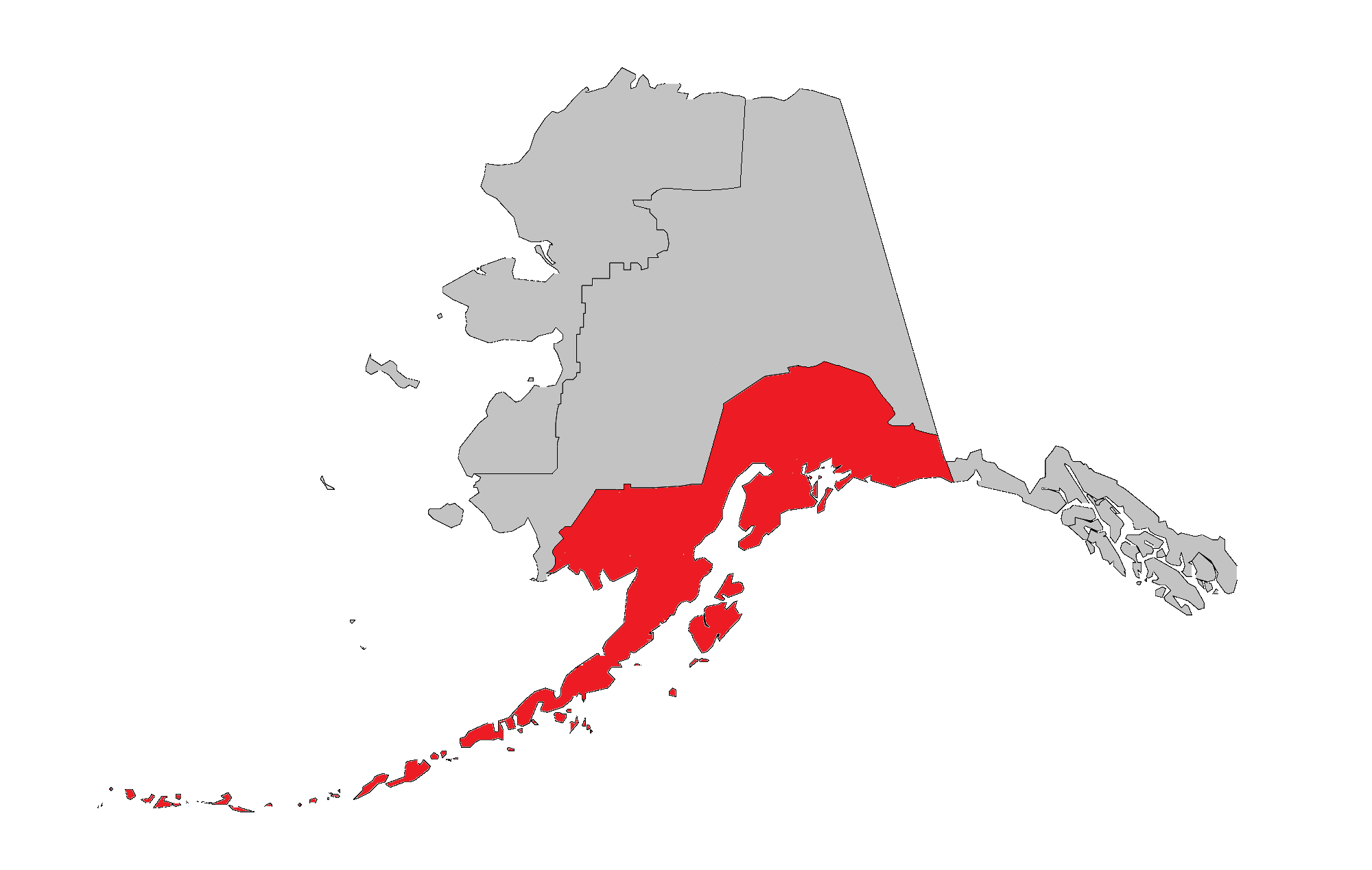 A map of the Third Judicial District (also refered to as Division #3) in red. Based on "Map of boroughs and census areas" av cmrivers.